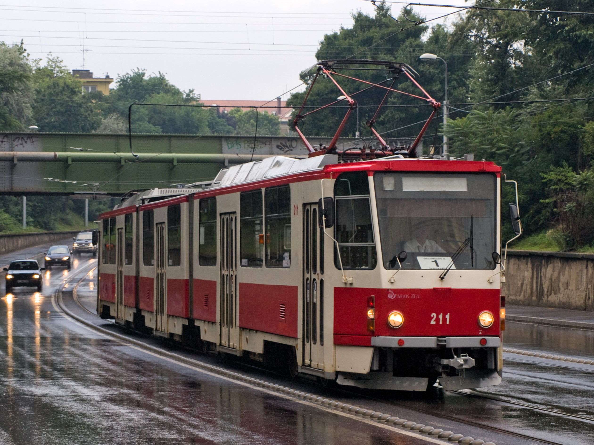 Tatra KT8D5, Bajcsy-Zsilinszky street, Miskolc